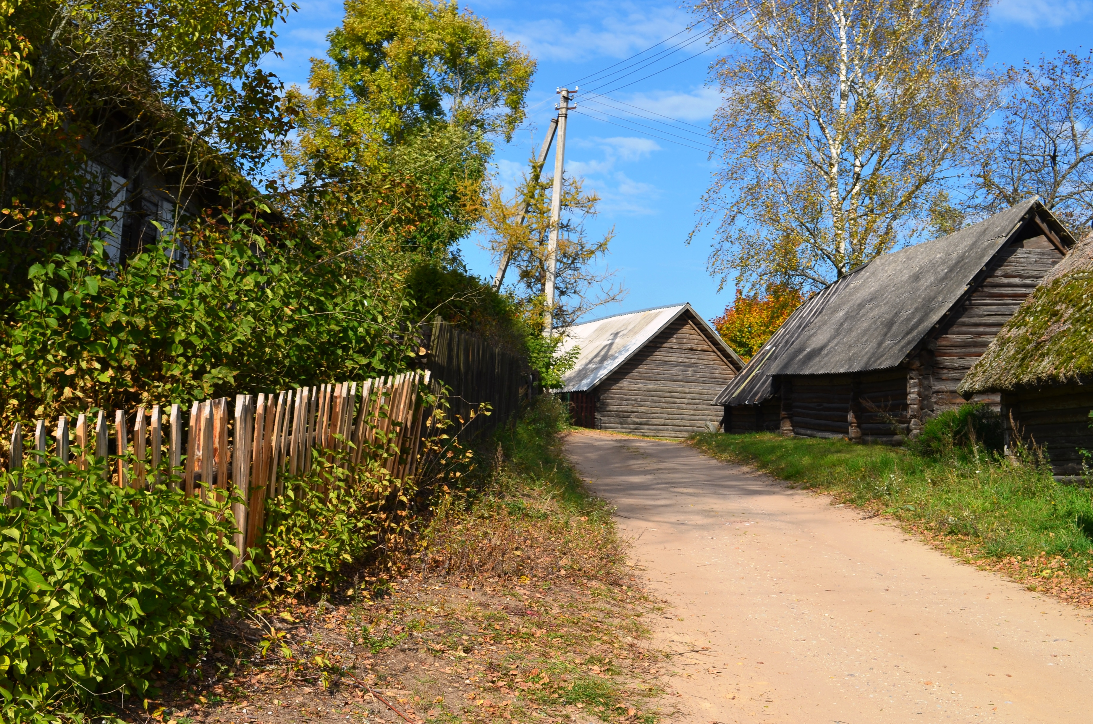 Ūlos gatvelė (Ula road) in Zervynos, Lithuania